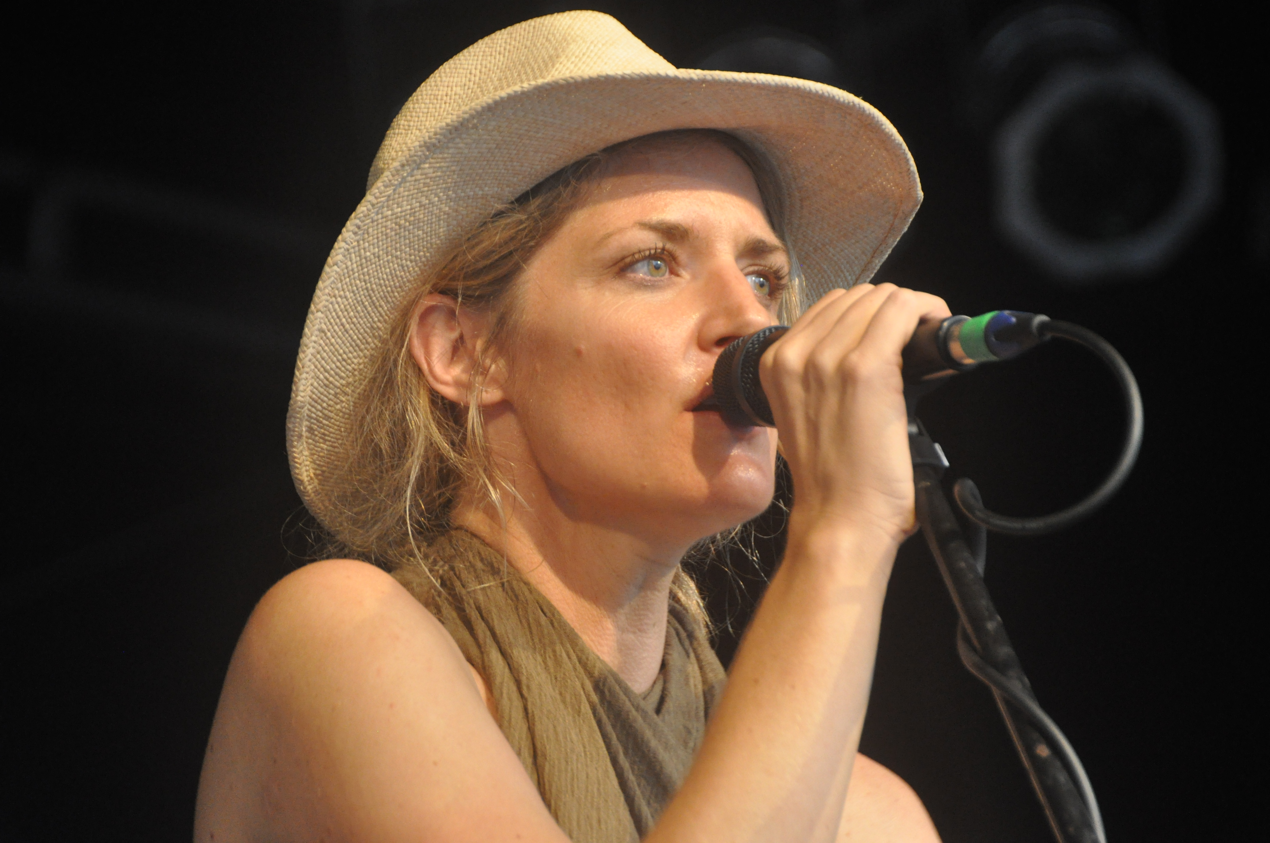 Samantha Stollenwerck (USA / Germany), singer/songwriter, appearance at the 39th music festival "Bardentreffen" 2014 in Nuremberg, Germany, stage at the Lorenz square